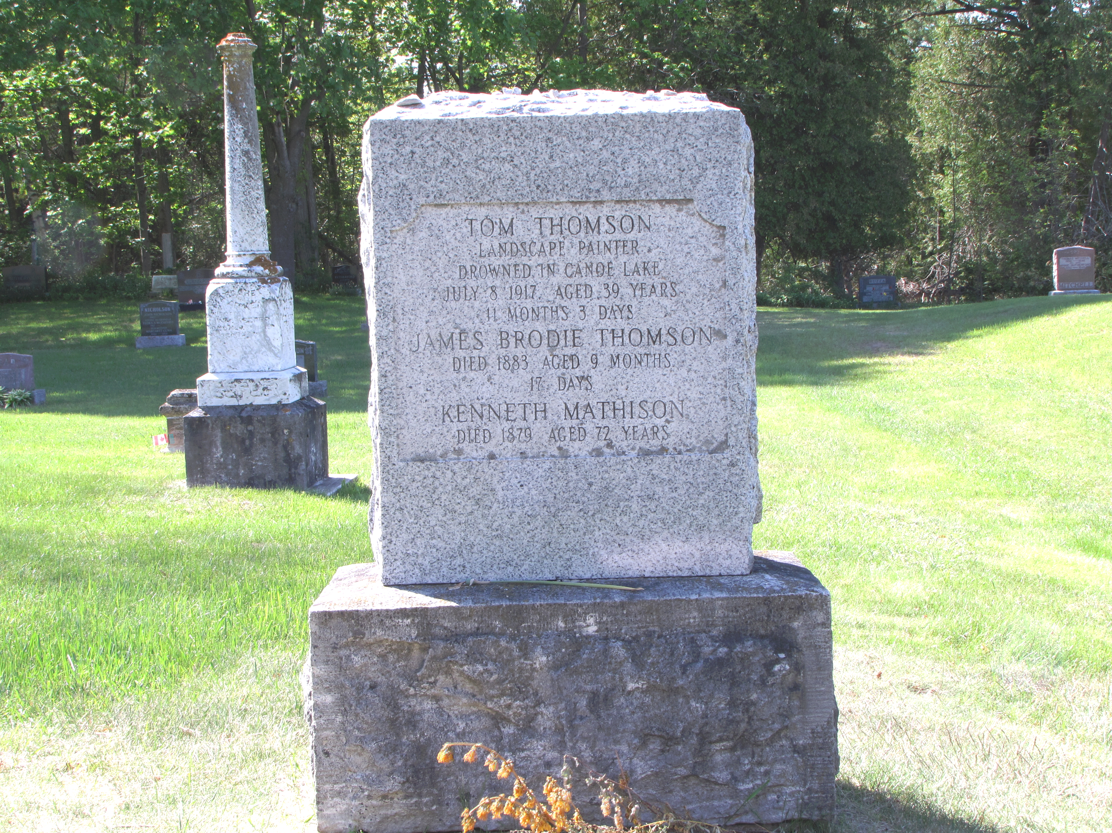 HDR image of the headstone of Tom Thomson, Canadian painter.